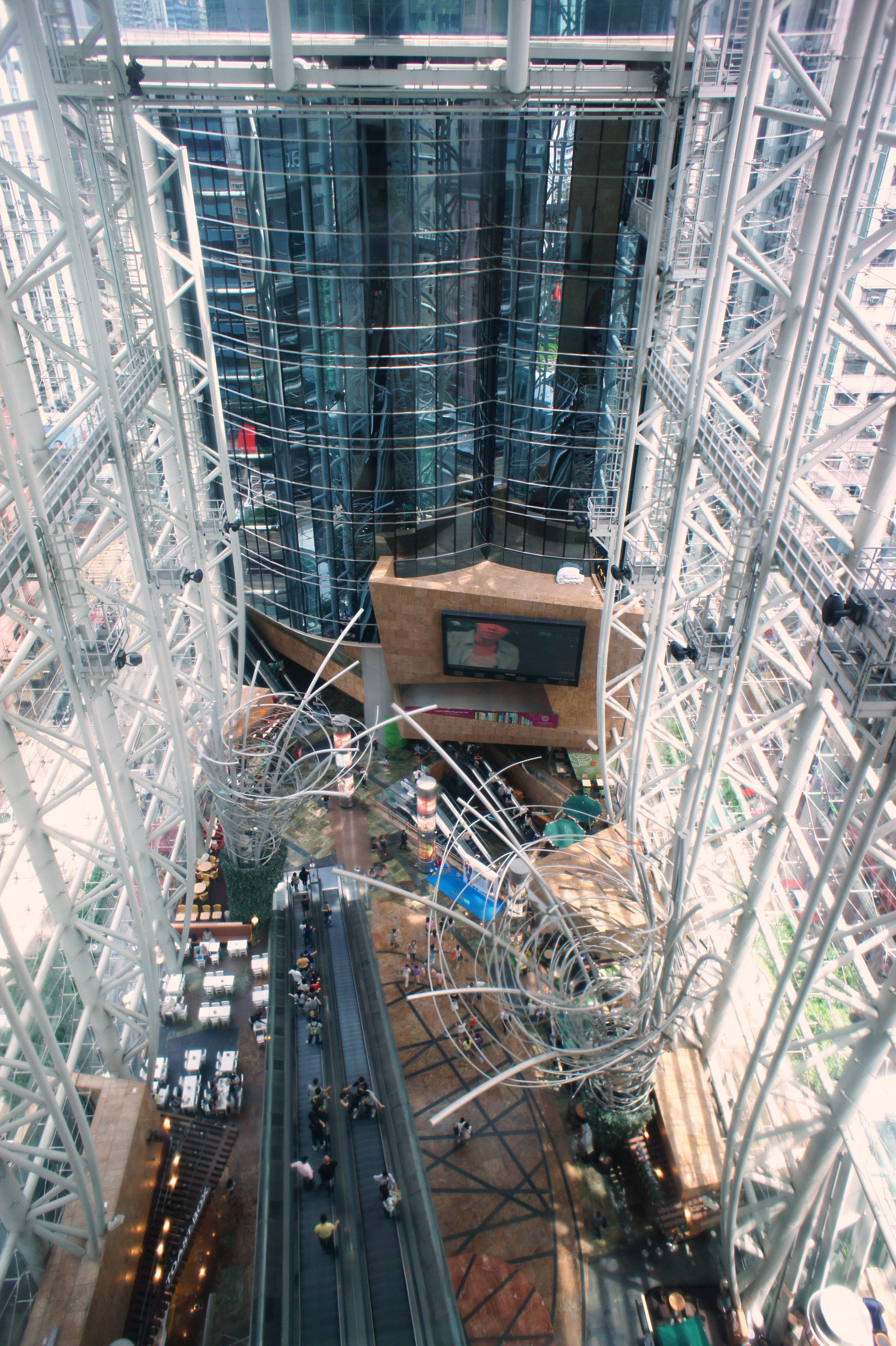 The Grand Atrium of the Langham Place (The Mall), Mong Kok, Kowloon, Hong Kong.